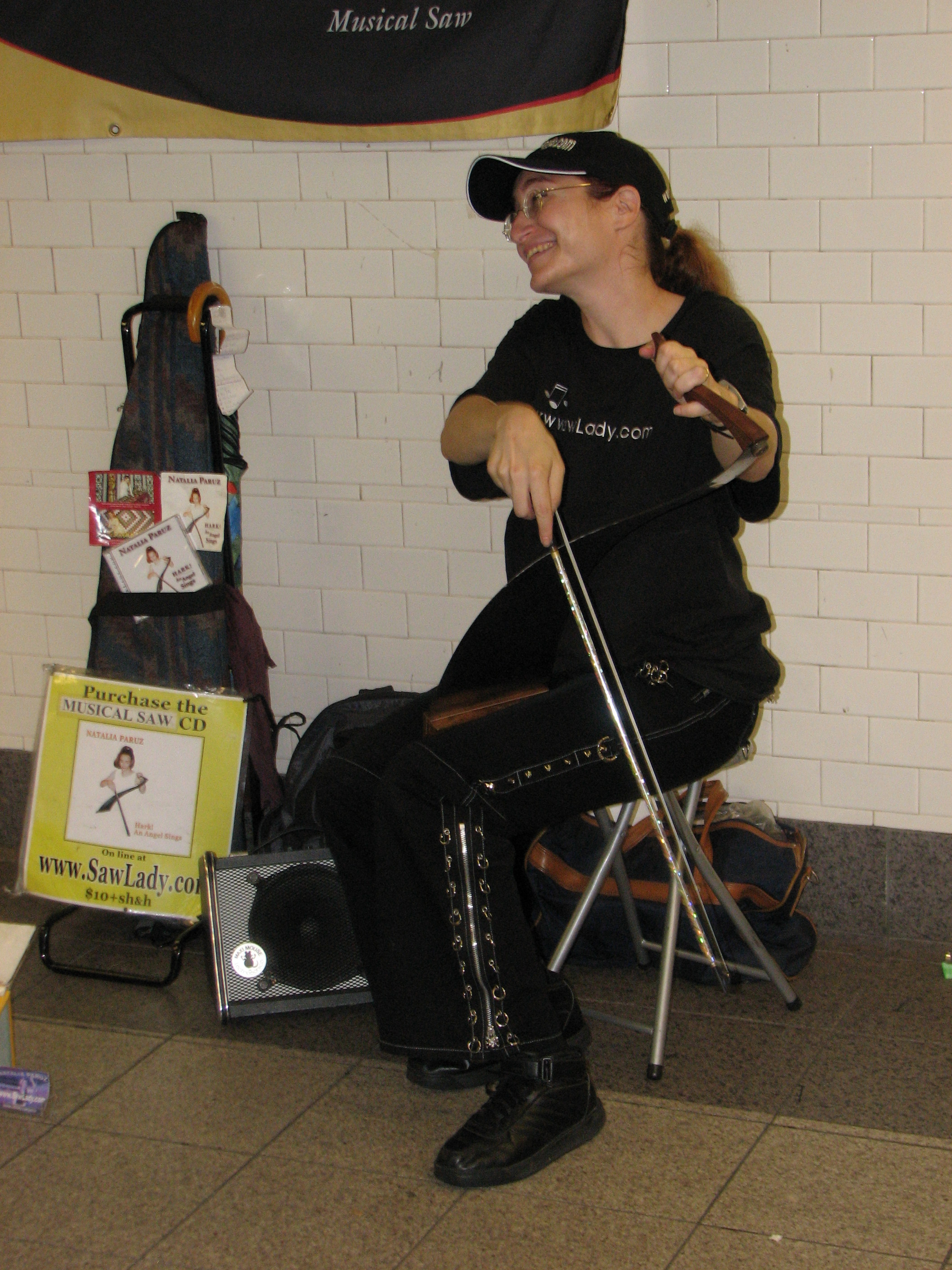 The sawlady (Natalia Paruz) performing in the New York City subway, playing the musical saw.